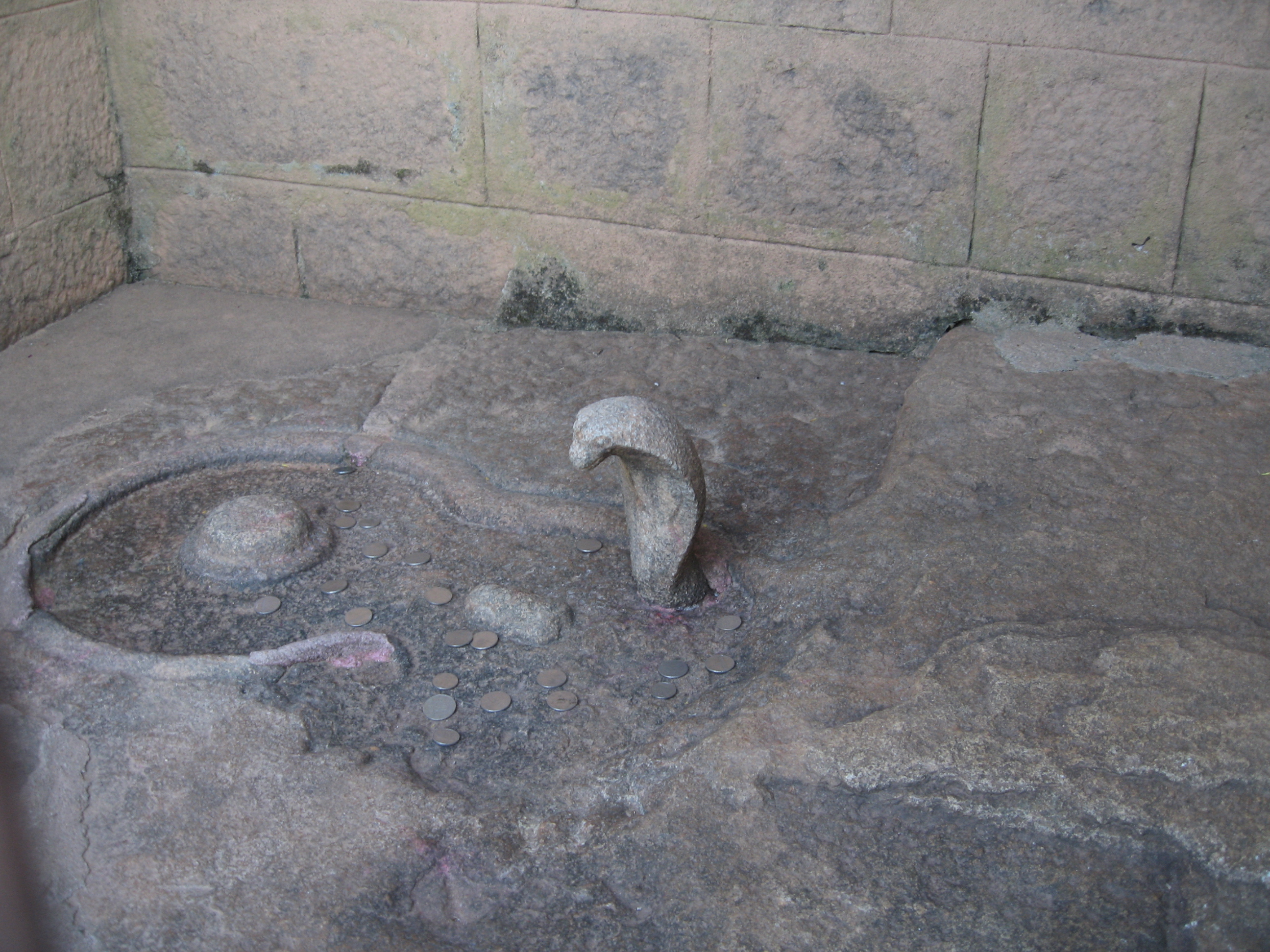 A depiction of the snake guarding the pregnant frog on the banks of the river at Shringeri. This scene is believed to have moved Sri Adi Shankara to establish the first of his four Mathas at Sringeri